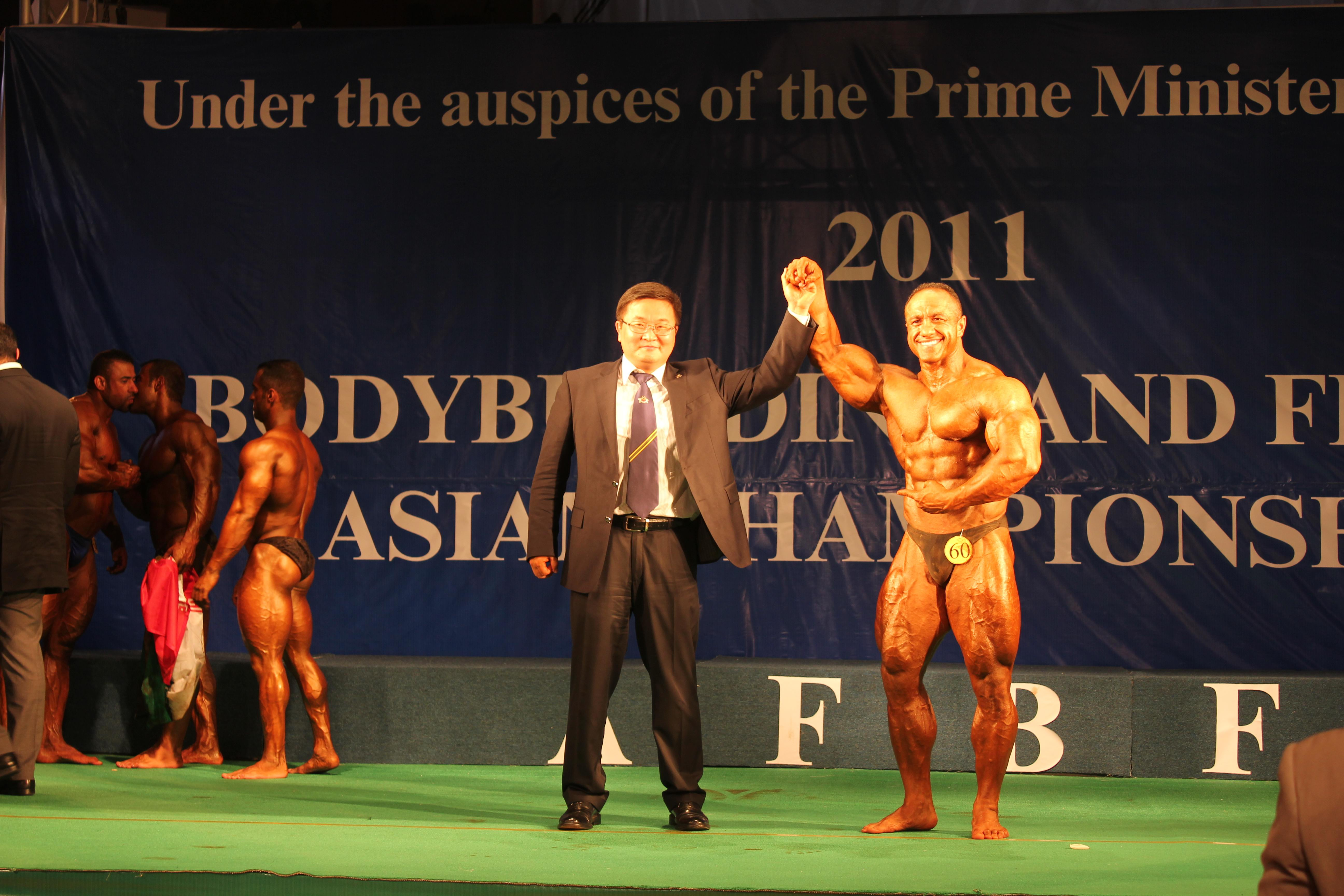 Монголын бодибилдинг